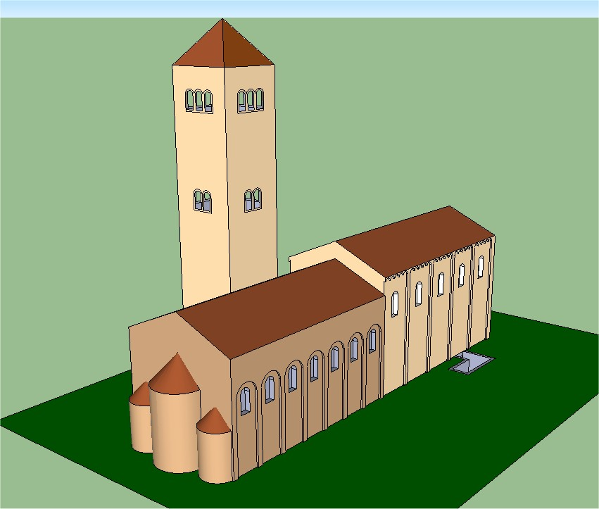 Supposed appearance of the abbey in Leno in the XI th century. Source: Andrea Breda, L’indagine archeologica nel sito dell’abbazia di S. Benedetto di Leno e Andrea Breda, Leno: monastero e territorio. Note archeologiche preliminari